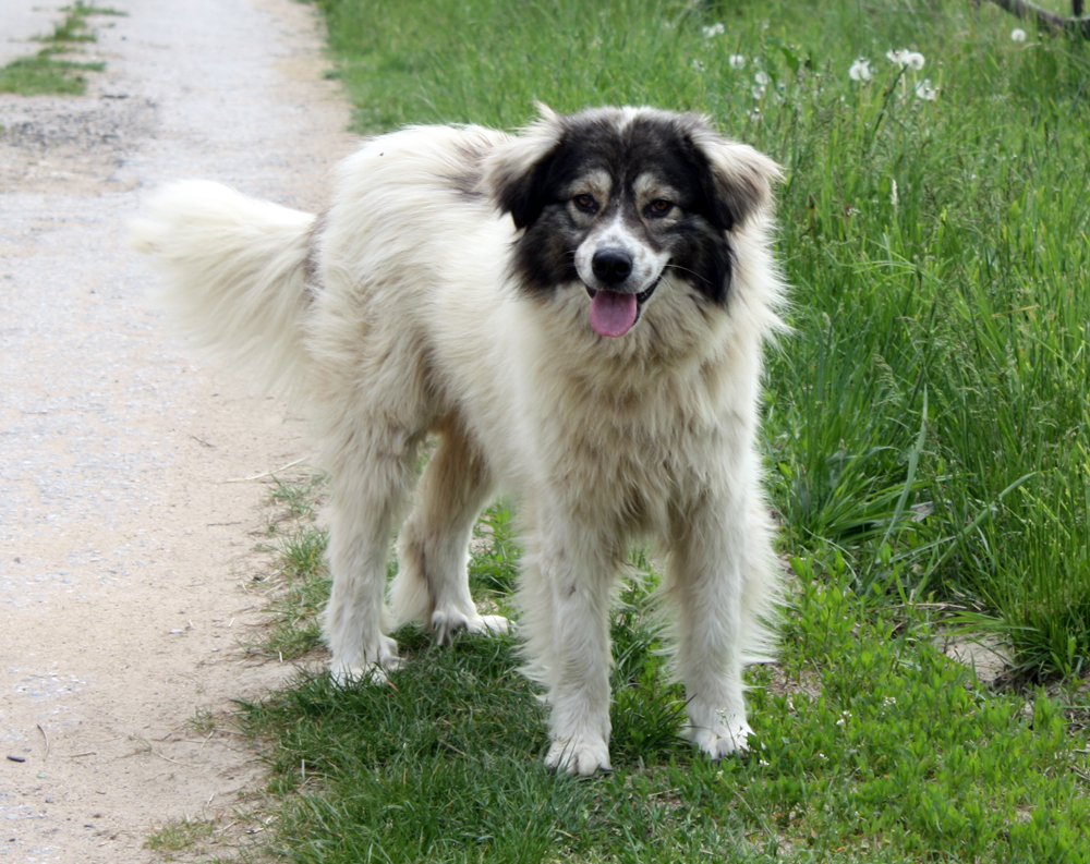 Bulgarian shepherd (Karakachan dog) from Ochusha